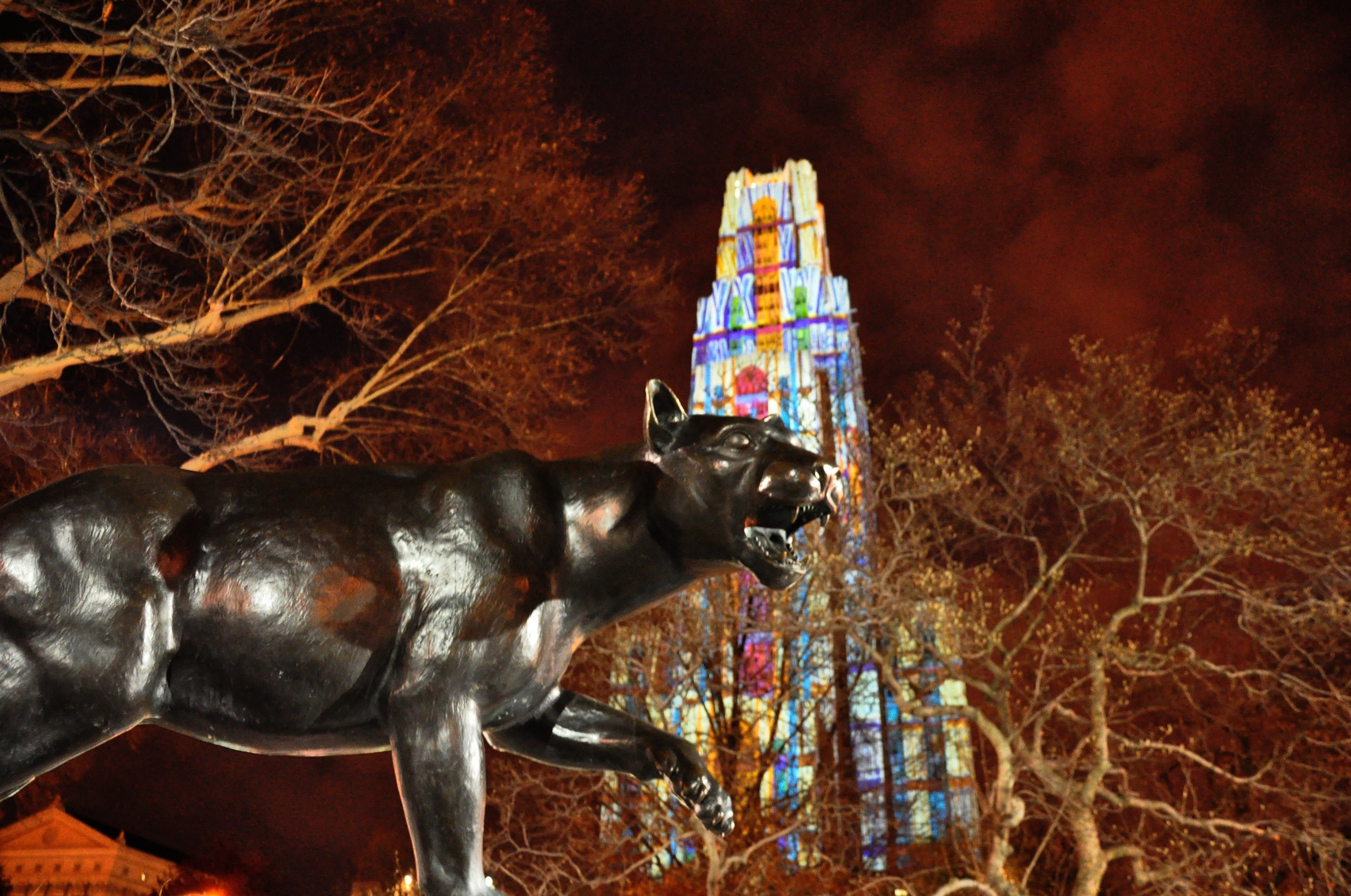 The Cathedral of Learning on the University of Pittsburgh campus was lit up for one extra night (tonight) as part of the Pittsburgh 250 Celebration to coincide with Light Up Night and to collect non-perishables to help those in need during this holiday season. They went back to the first "Gutenberg Press" motif, which I think looked a bit better than the odd colorful Gothic one.